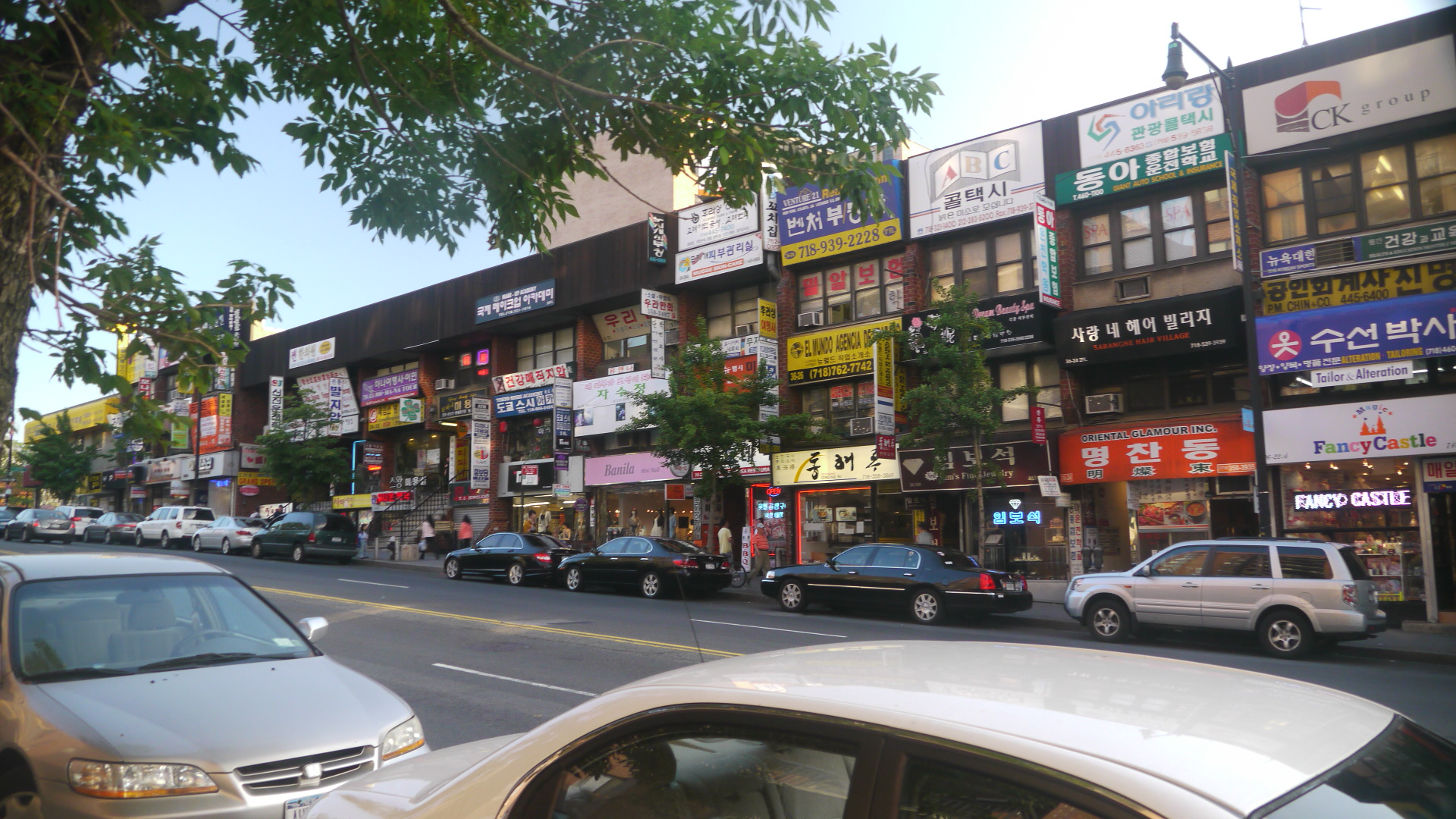 Flushing Queens is like another country - Staying at YMCA to take my GED at flushing high school was like taking a mini vacation to Asia Mixed with a flash back nightmare of being in high school again.